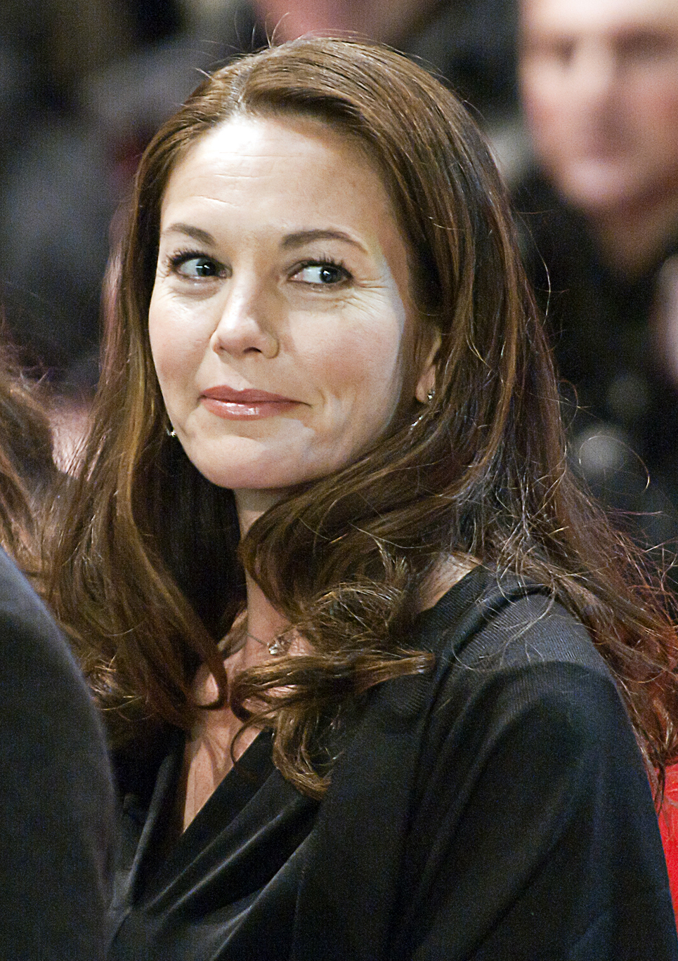 Diane Lane attending the premiere of True Grit at the Berlin Film Festival 2011